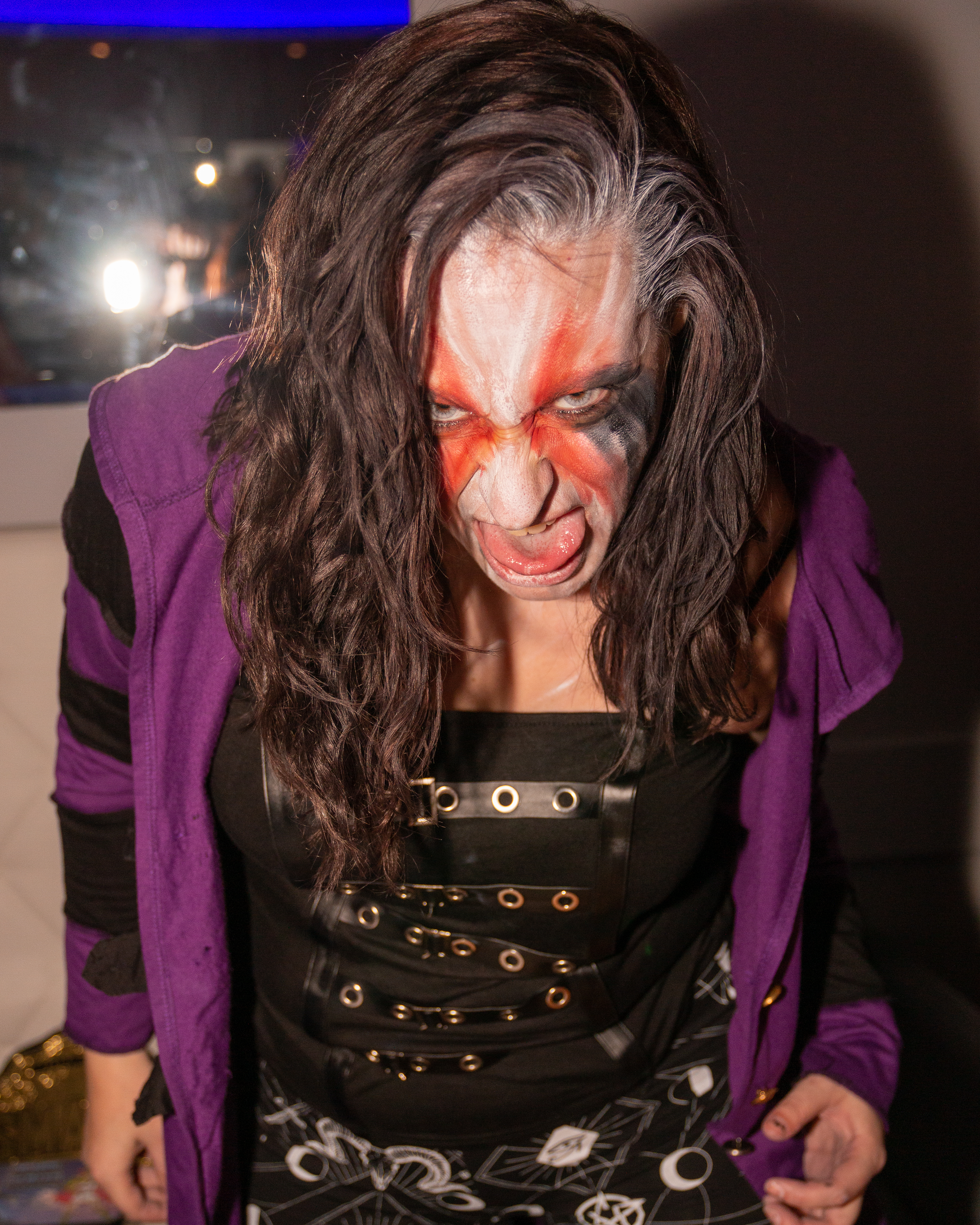 Independent wrestler Rosemary at Smash Wrestling's The Summit show in Toronto, ON